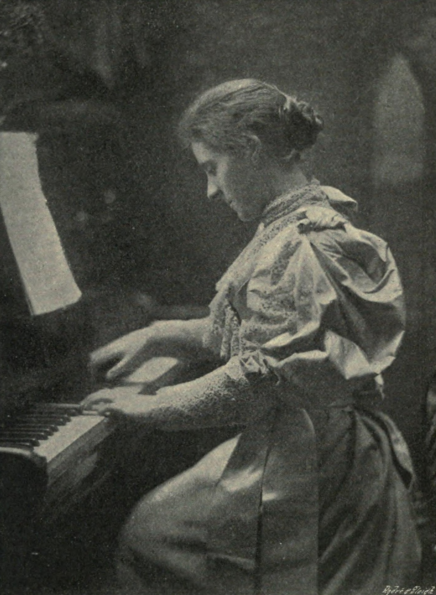 Portrait of Fanny Davies